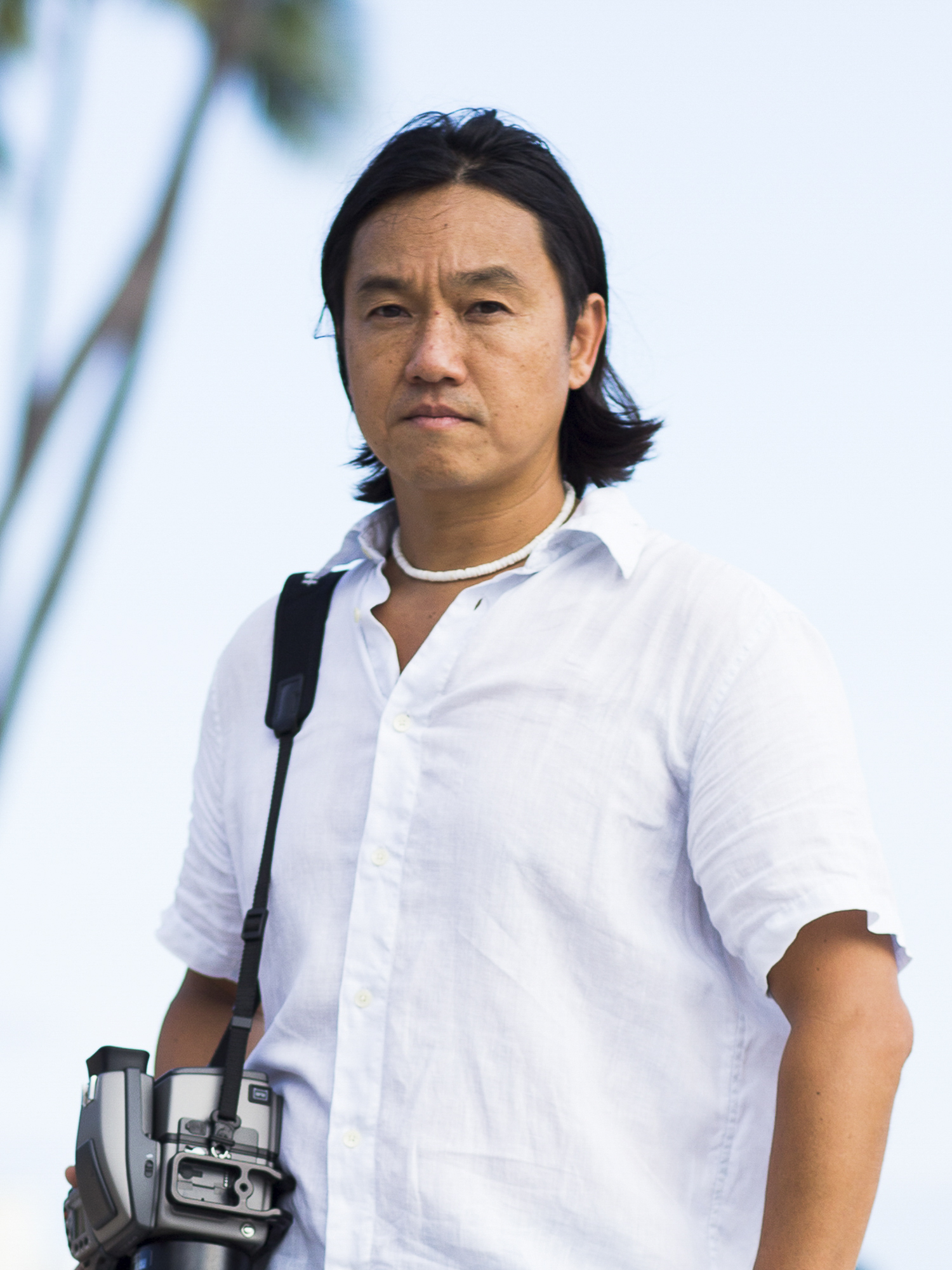 Hawaii base Japanese Professional Photographer, Film Director, Sculptor, and Artist, Koji HIRANO in Honolulu, Hawaii 2017